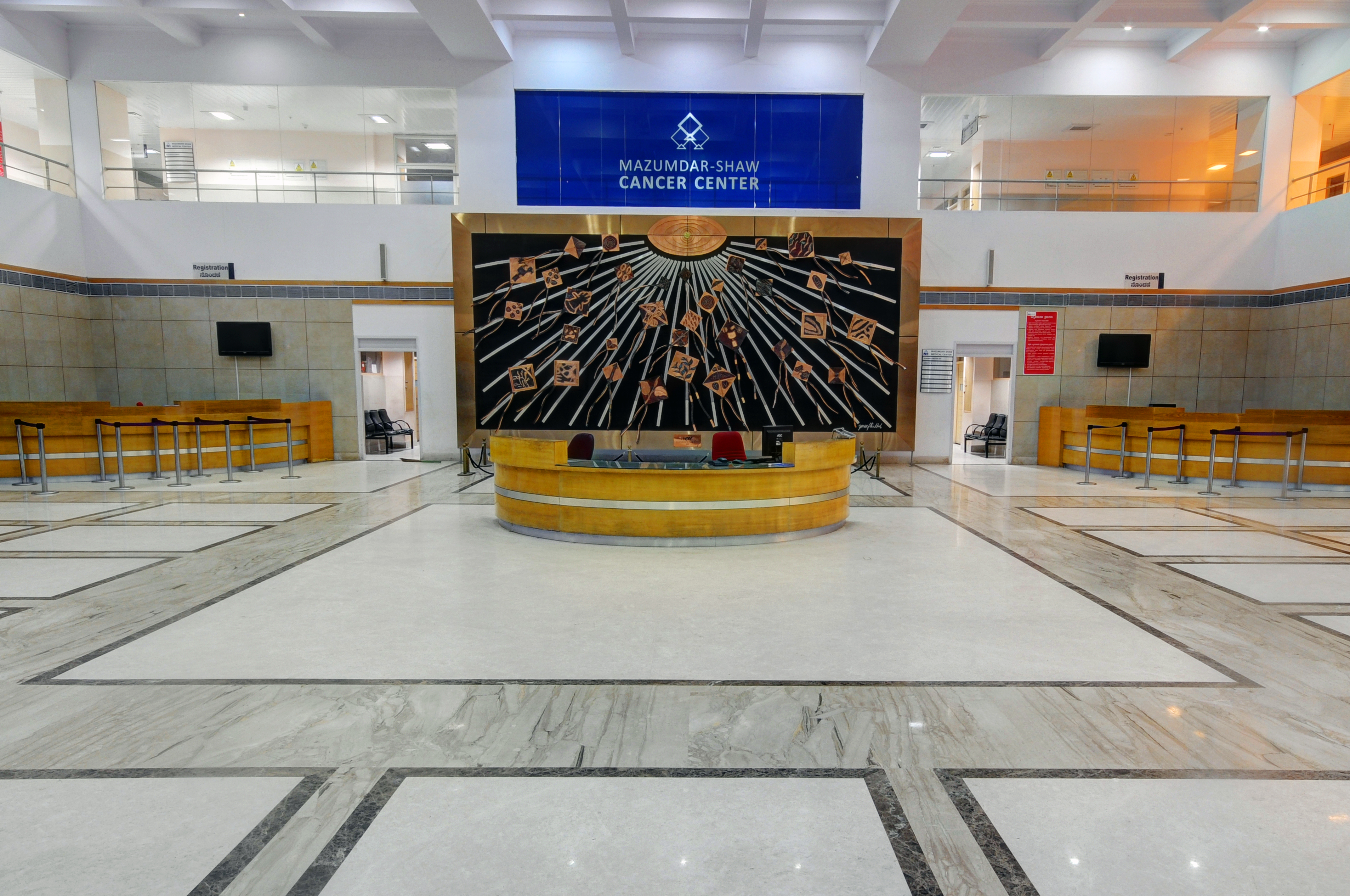 MSMC - Inside 1